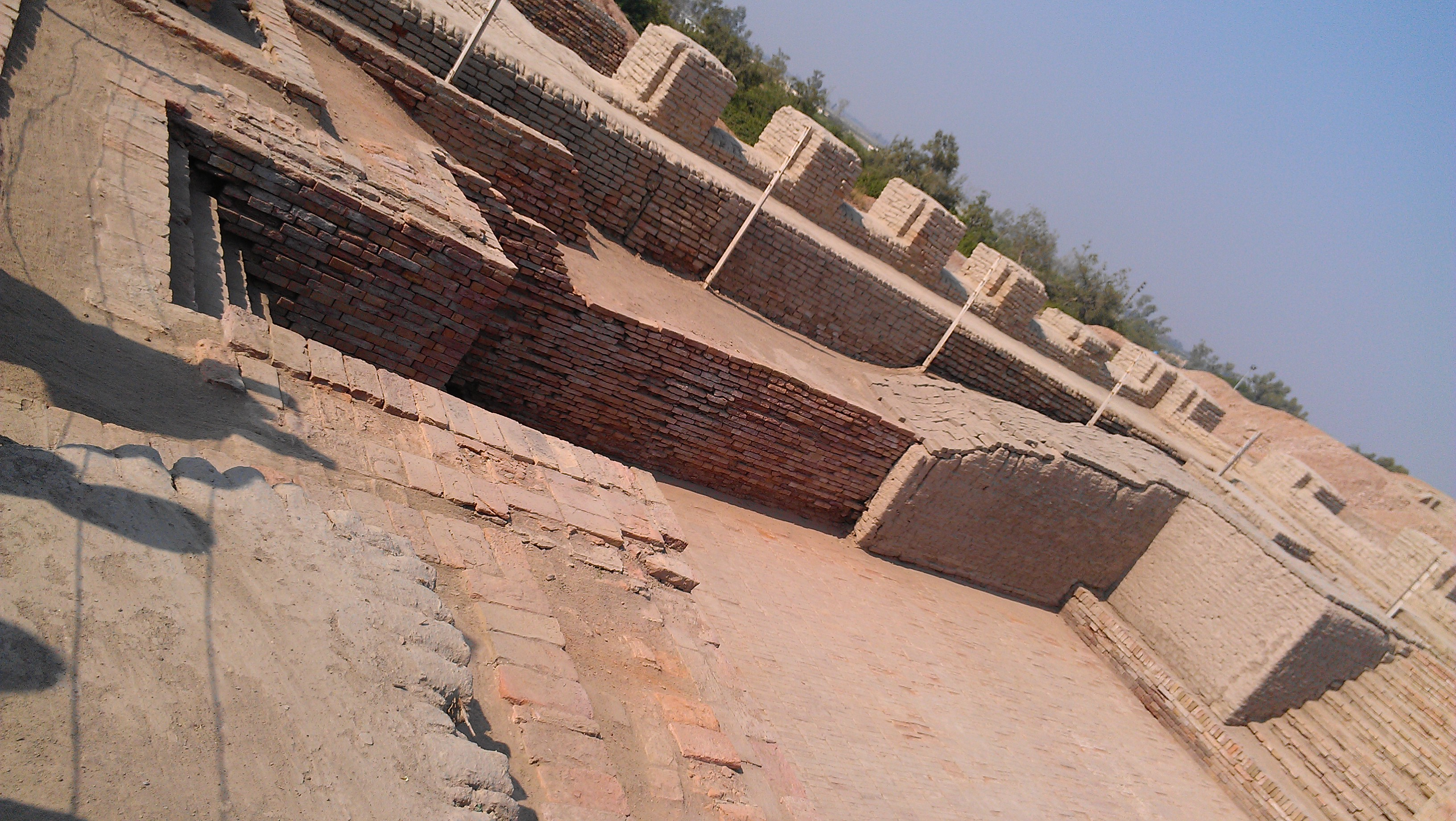 Moenjodaro Swimming pool called as The great Bath This is a photo of a monument in Pakistan identified as the SD-41